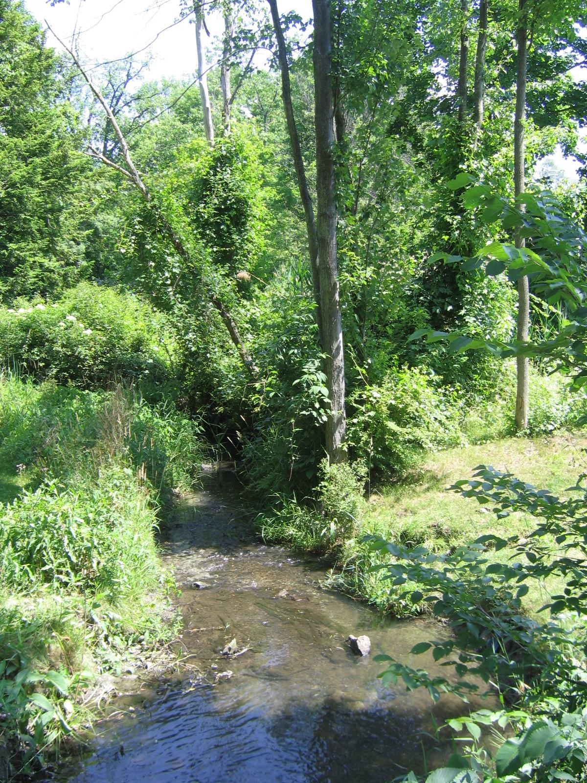 The Fonteynkill, on the campus of Vassar College in the town of Poughkeepsie, New York, US.